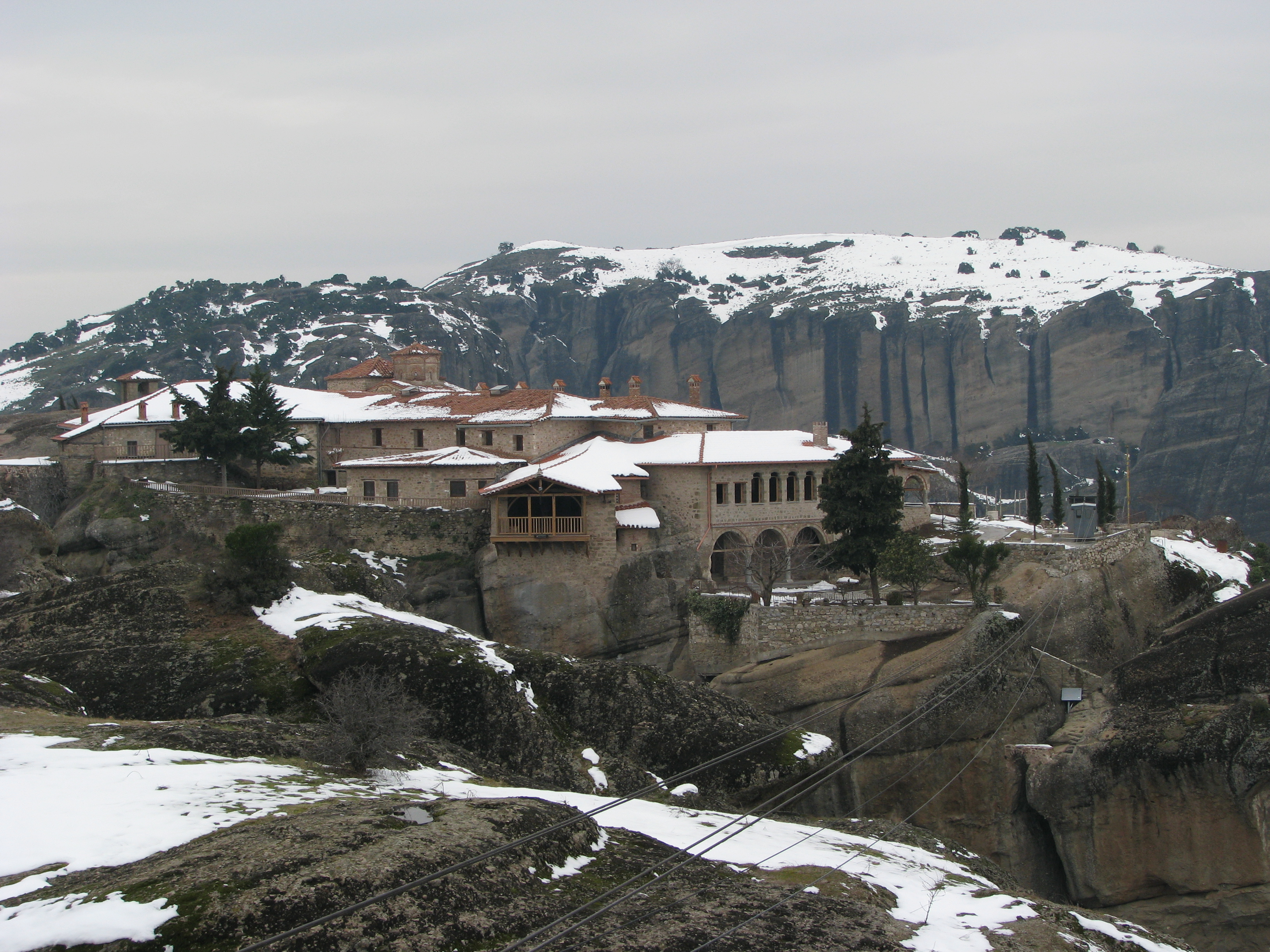 Monastery of Agia Triada in Meteora